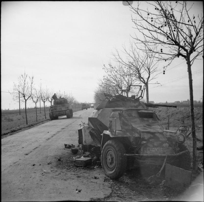 The British Army in Italy 1944 Sherman tanks pass a knocked-out German SdKfz 222 armoured car, 25 January 1944.